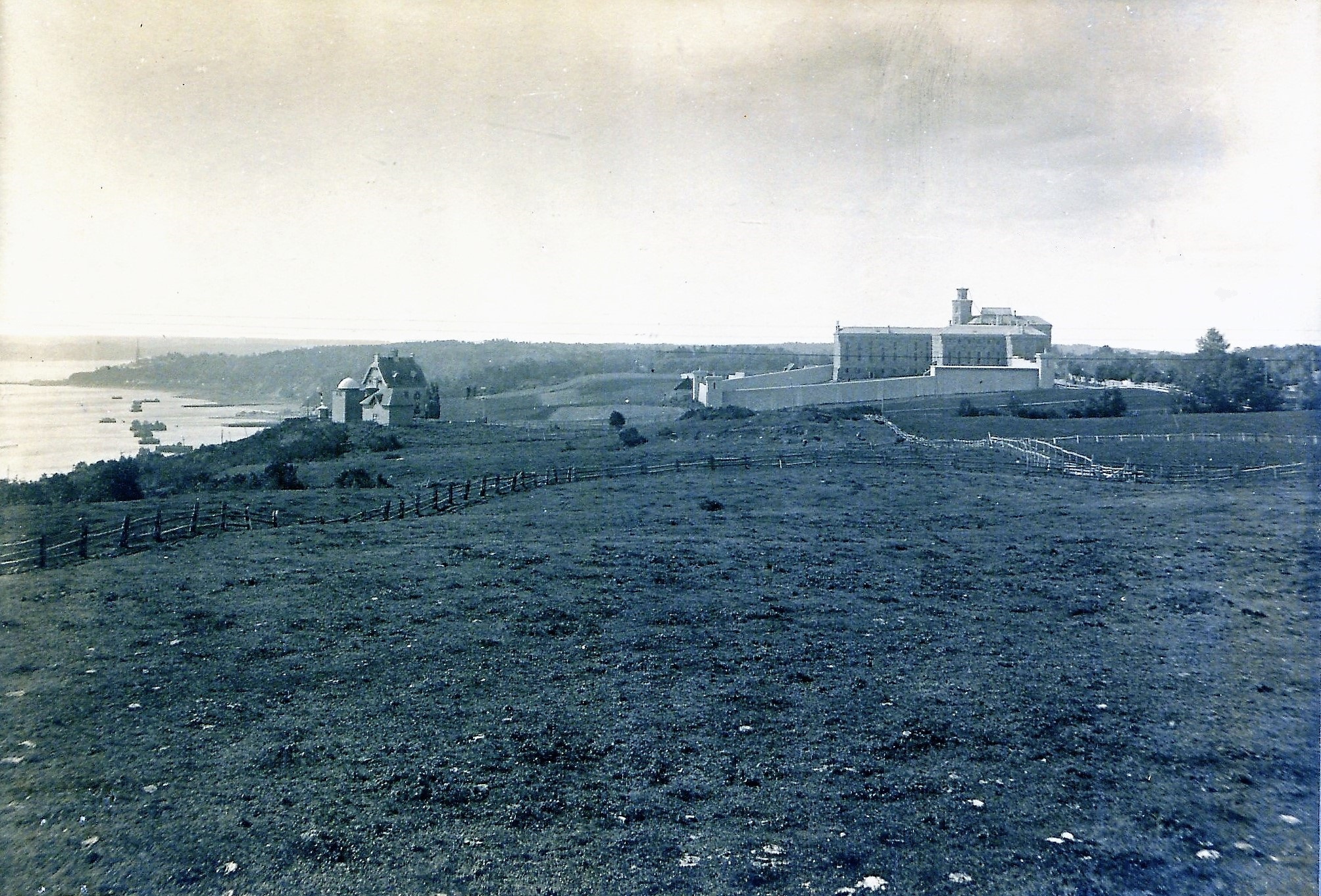 Original caption: “True Battlefield, Plains of Abraham.”